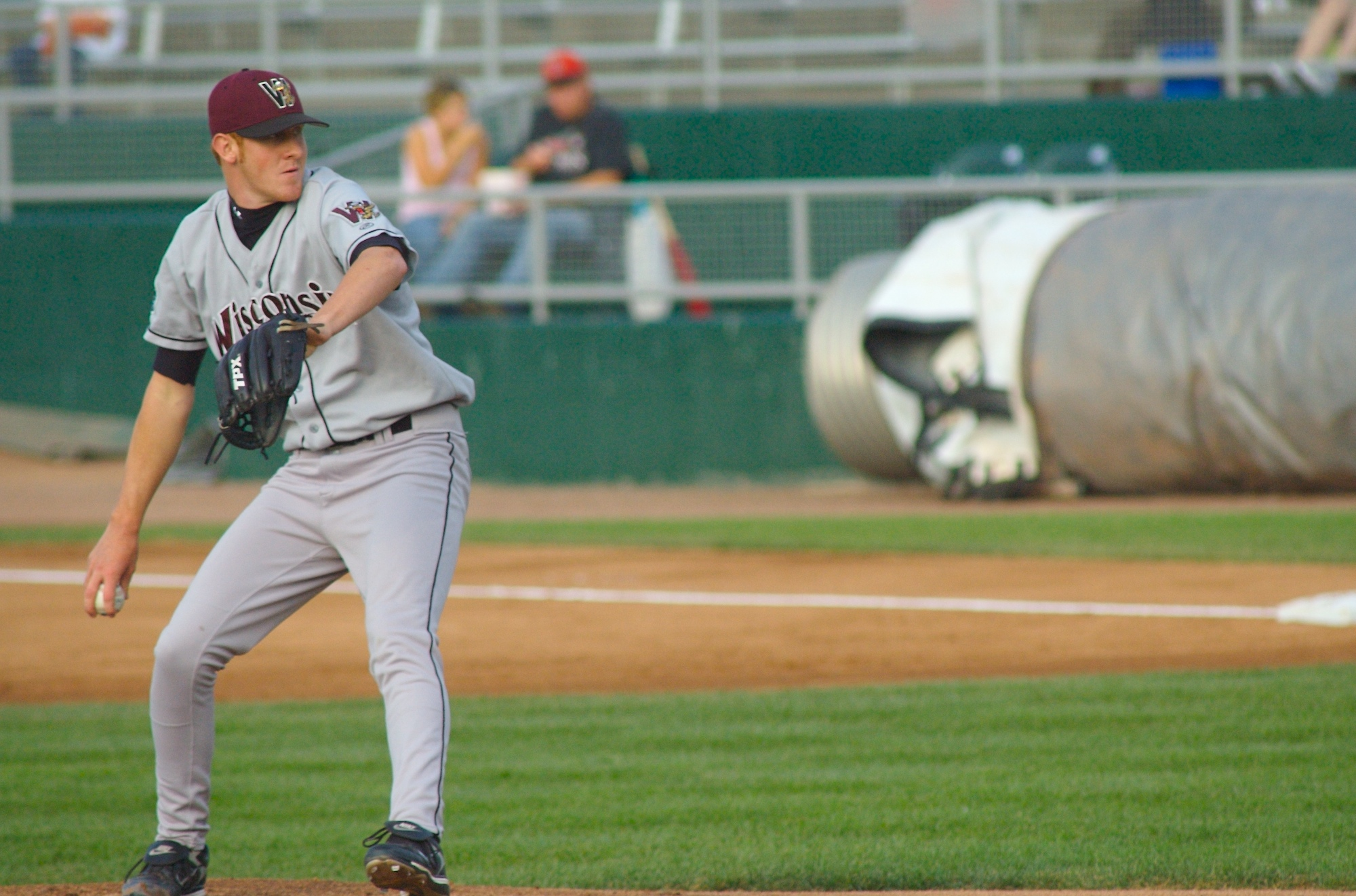 Nathan Adcock in 2007.